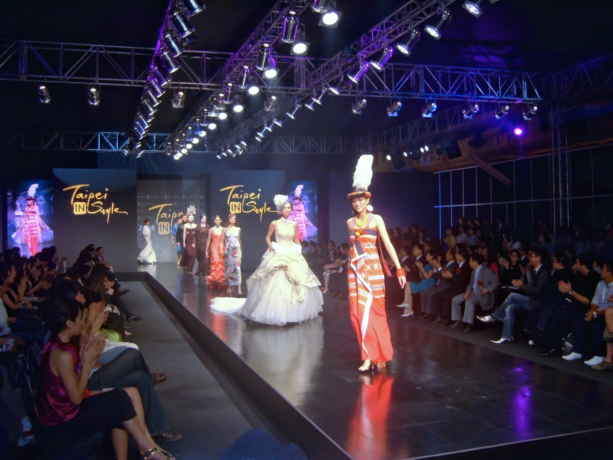 2008 Taipei In Style - Press Conference: Fashion Show.